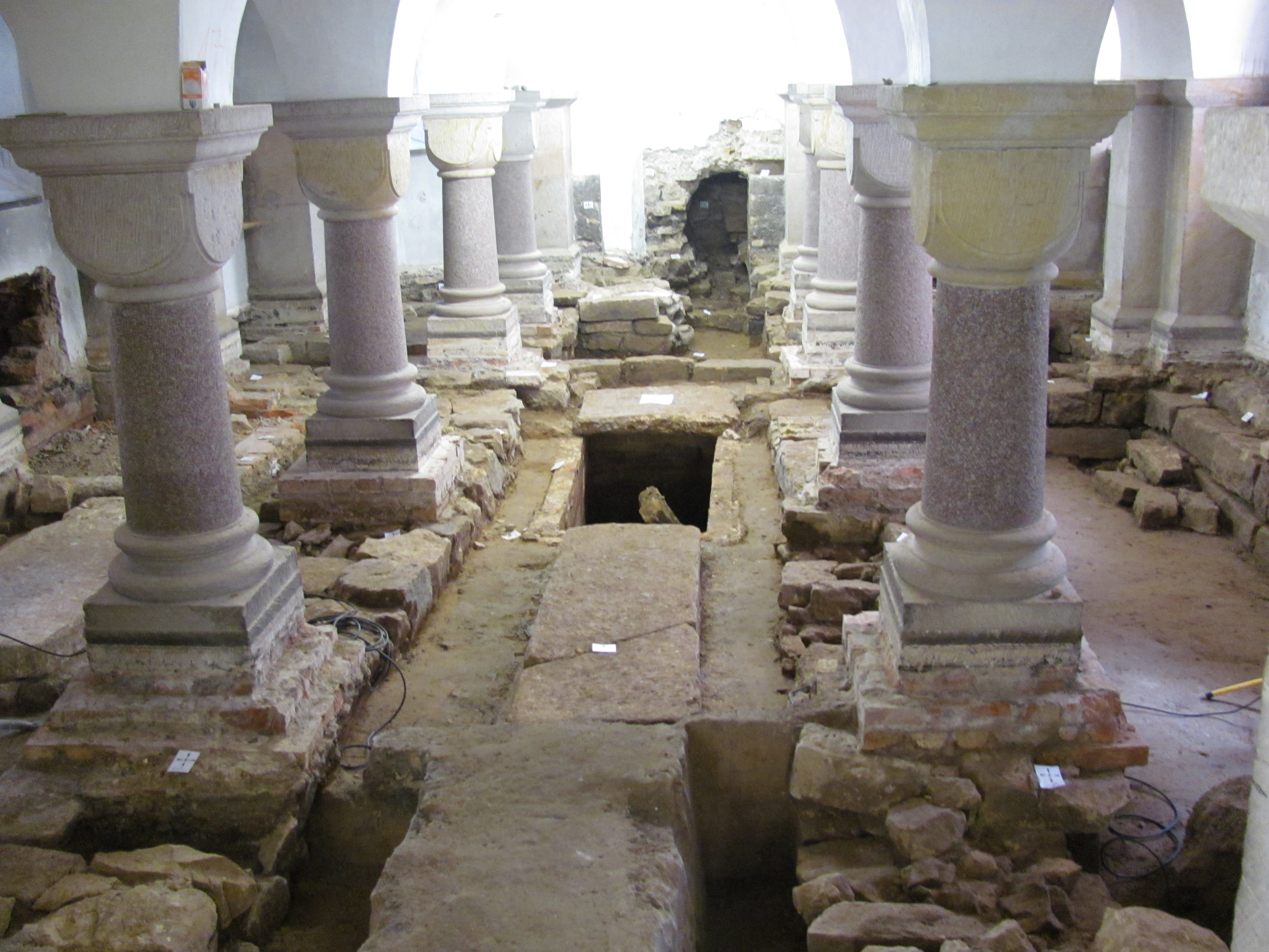 St. Mary's Cathedral, Hildesheim, Foundation of Saint Mary's Chapel dating from 815